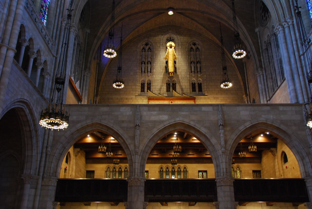 Rear of Riverside Church interior, showing organ, choir loft, bronze statue of Christ